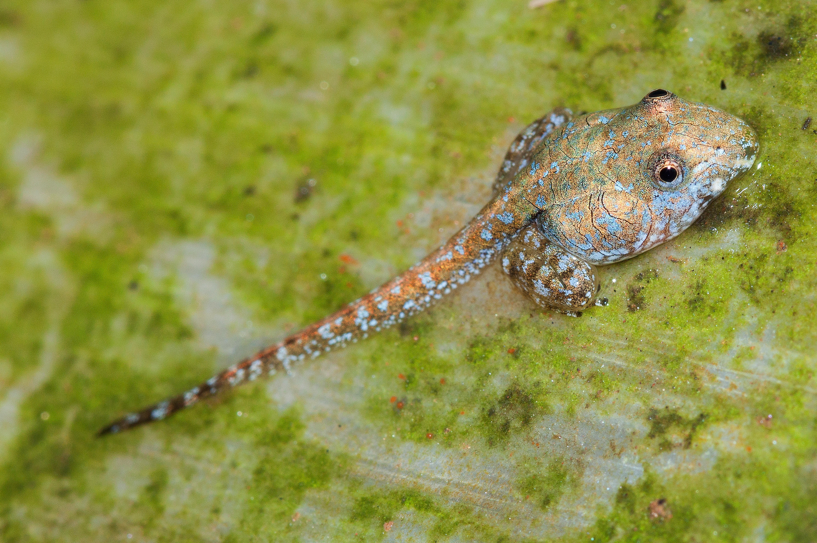 Saw this little beauty on a plastic sheet used to cover a shed